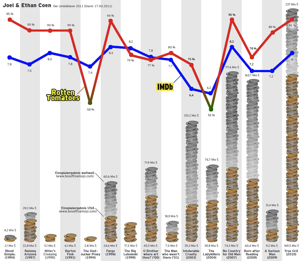 The so far 15 movies by the Coen brothers, 1984–2010 ("True Grit" being the most recent one): box office performance (from Box Office Mojo), user ratings (from IMDb), critical reaction (from Rotten Tomatoes), all put into one graph. We already used the graph in our own blog, here. The current graph is an updated version of this file and was generated on March 17, 2011. Licensed under CC BY-SA 3.0.